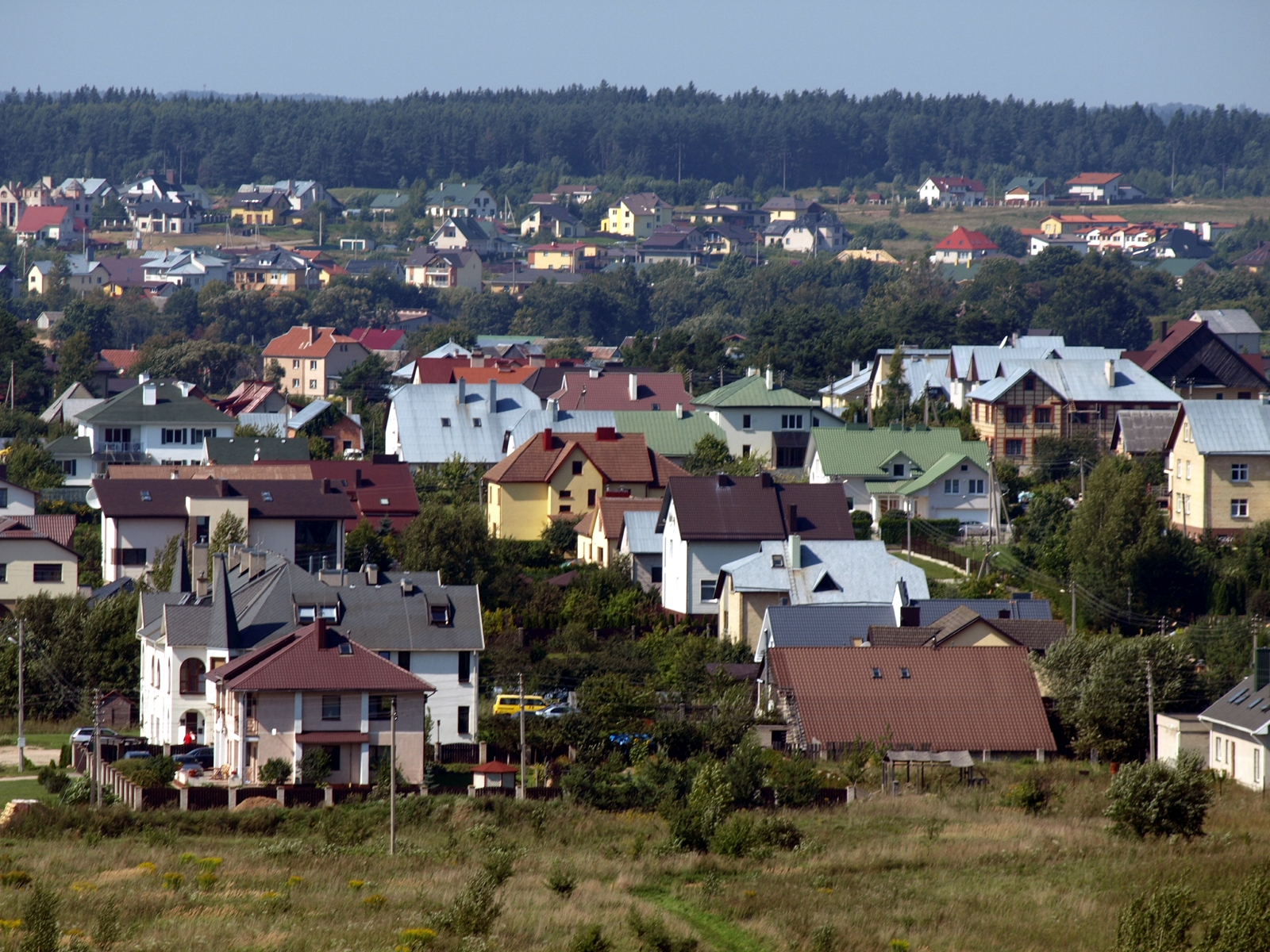 Gineitiškės village, Vilnius district municipality, 2012 06